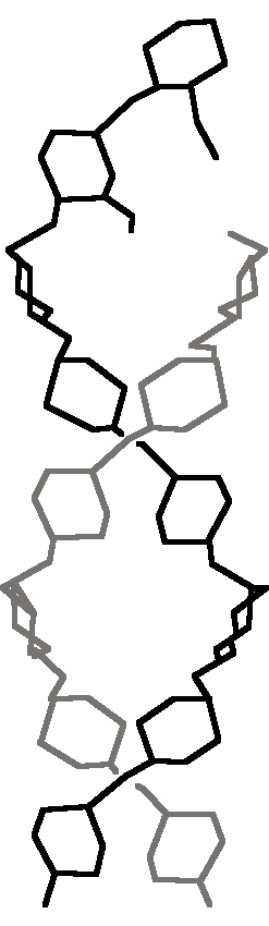 Amylose and Amylopectin helix example